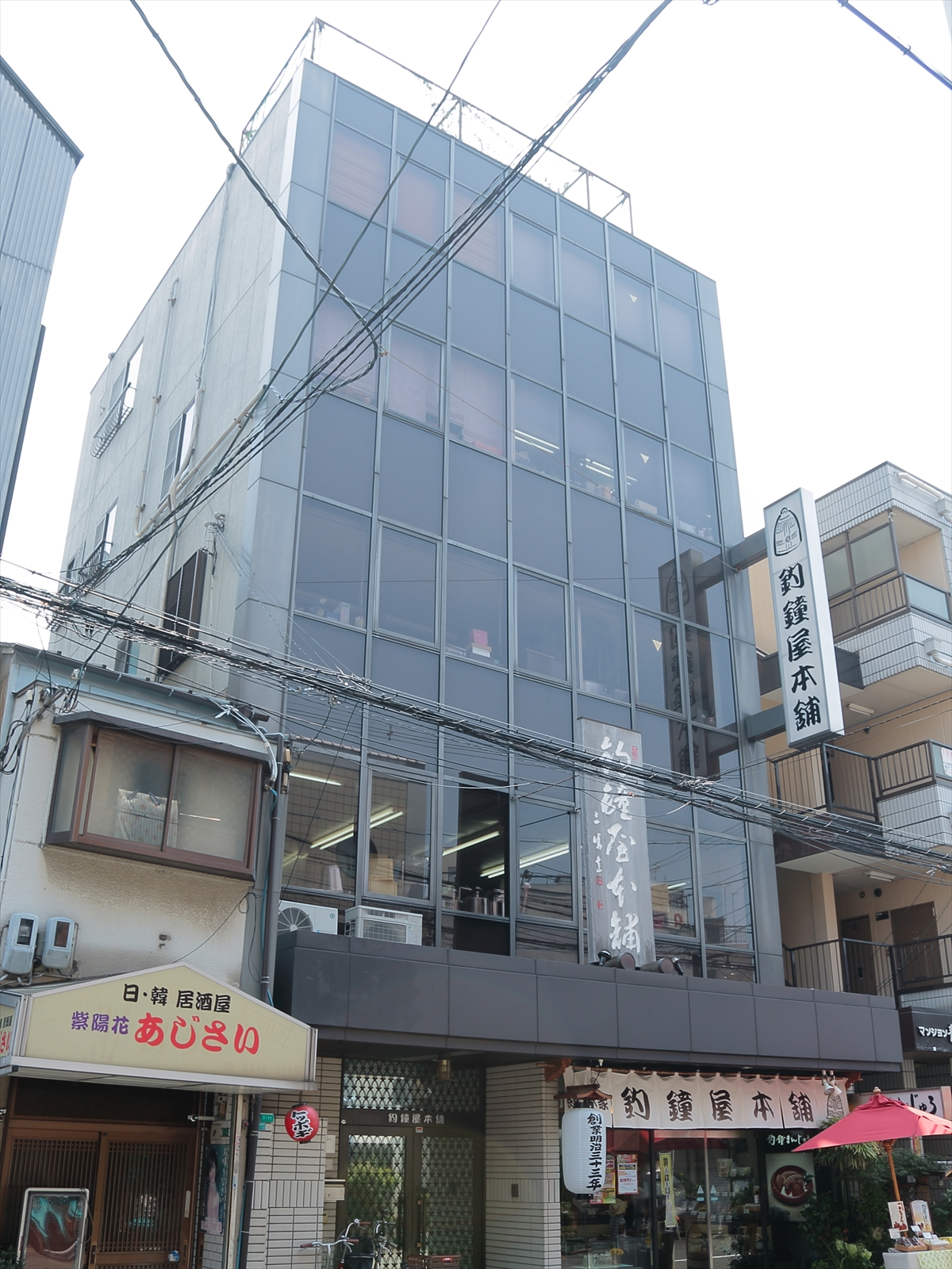 Tsurigane-ya honpo (Food companies of Osaka).